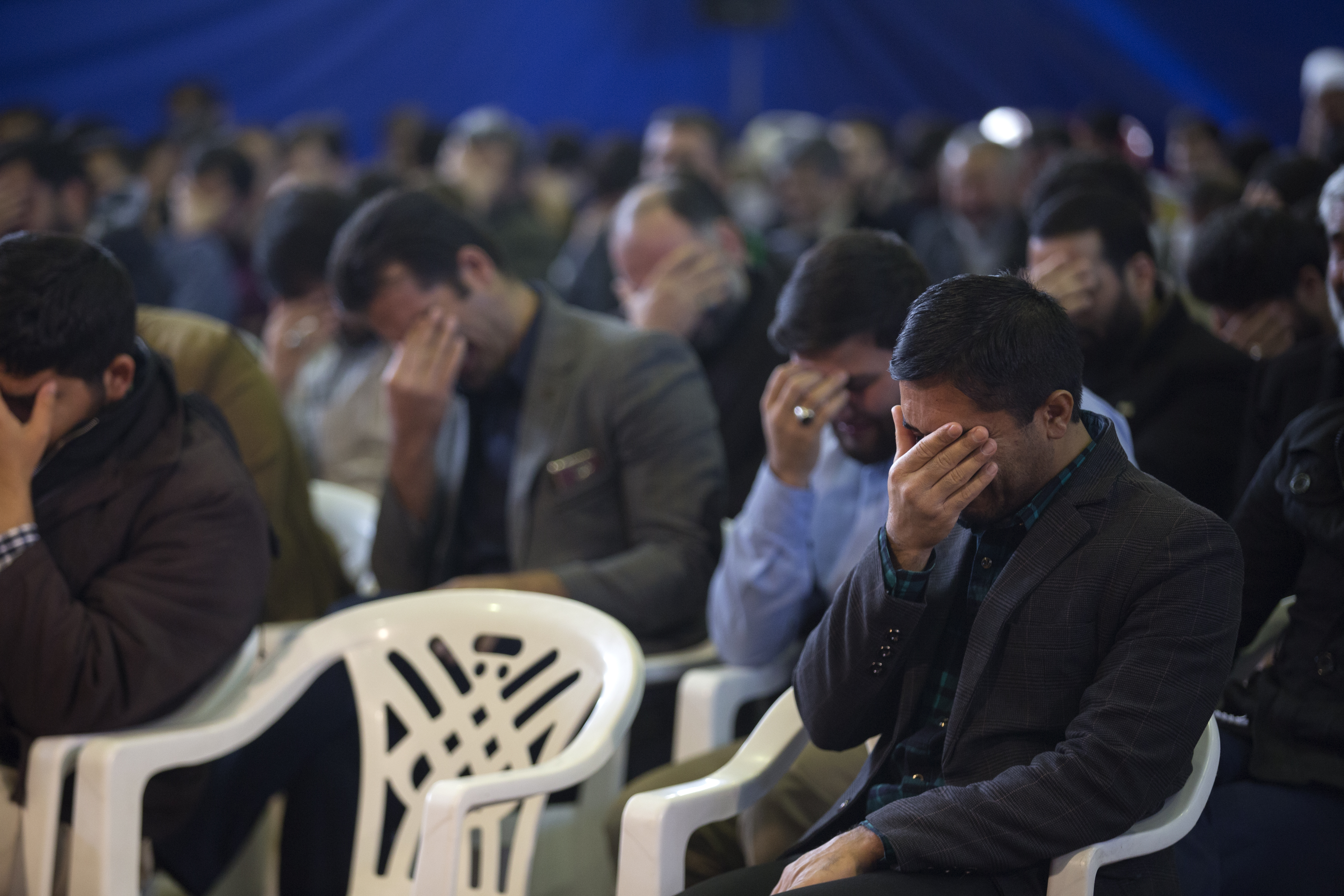 Crying is the shedding of tears (or welling of tears in the eyes) in response to an emotional state, pain or a physical irritation of the eye.